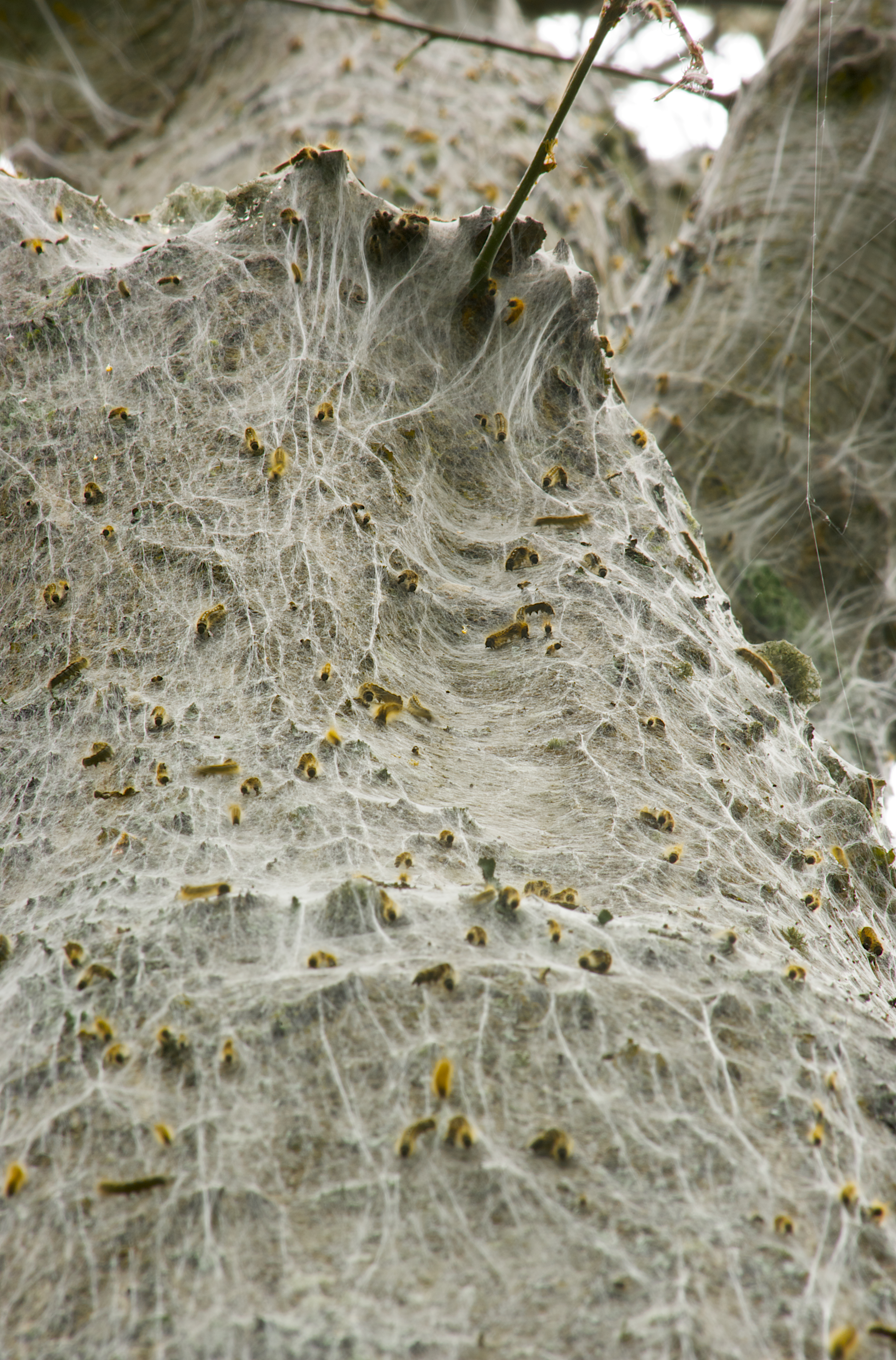 These forest tent caterpillars have made a mat that covers an entire side of a 15 metre tall tree trunk.